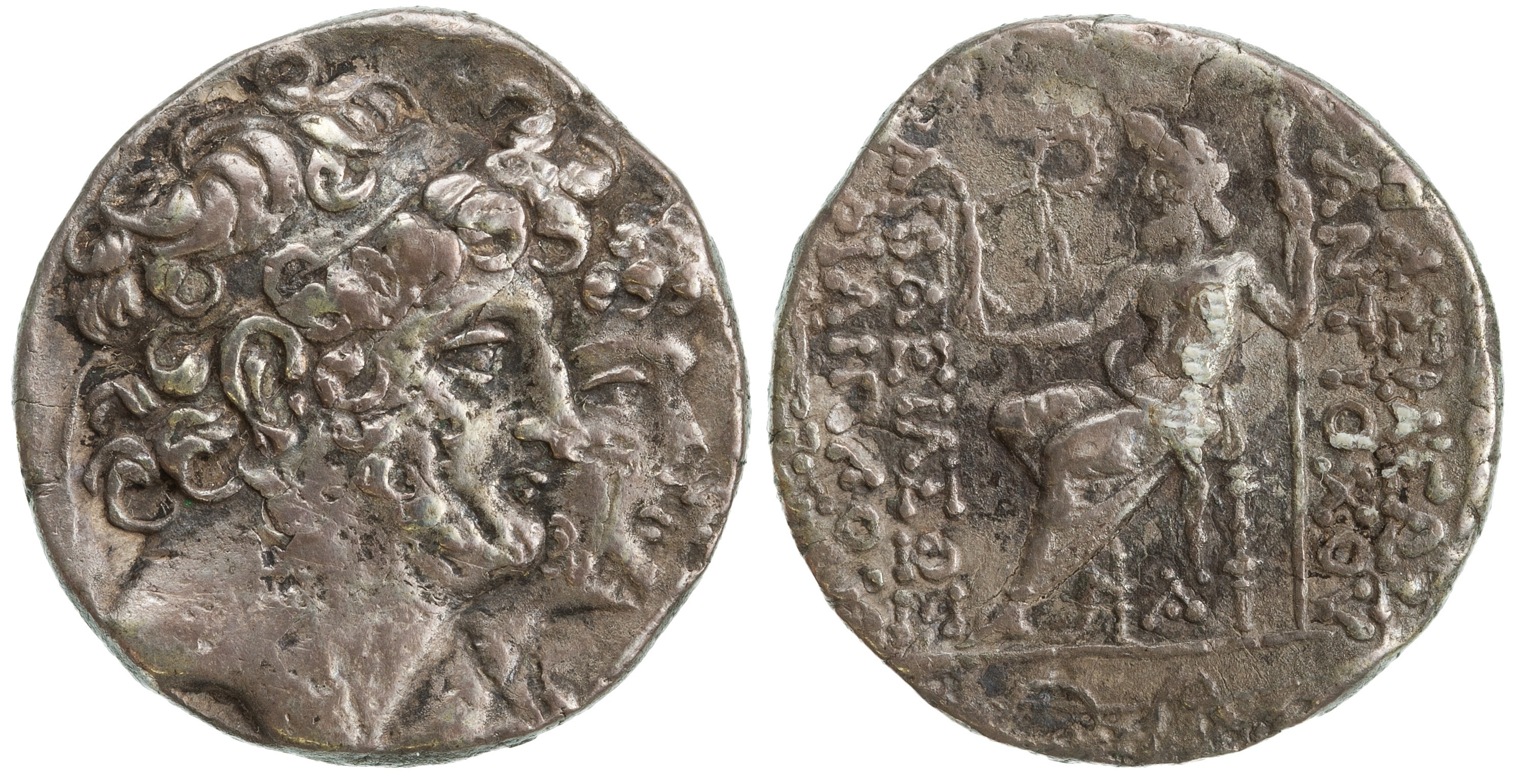 Silver Coin of Antiochus XI Epiphanes Philadelphus, Philip I Epiphanes Philadelphus, Uncertain Mint 127, 94 BC - 93 BC 1977.158.1292 Reference: Seleucid Coins (part 2) 2437 Reference: RSN 1987 p 80,6